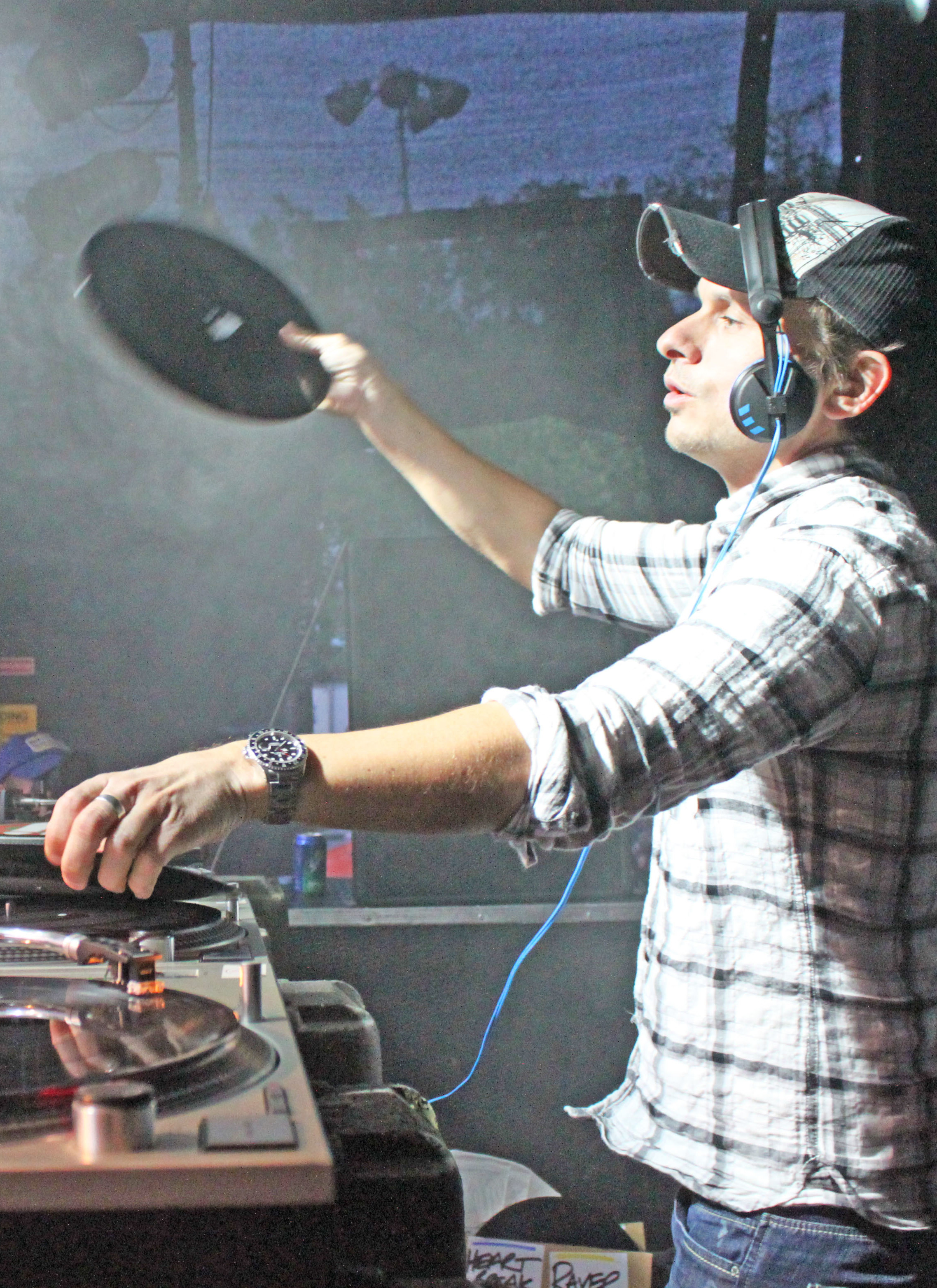 Andy C live in 2011